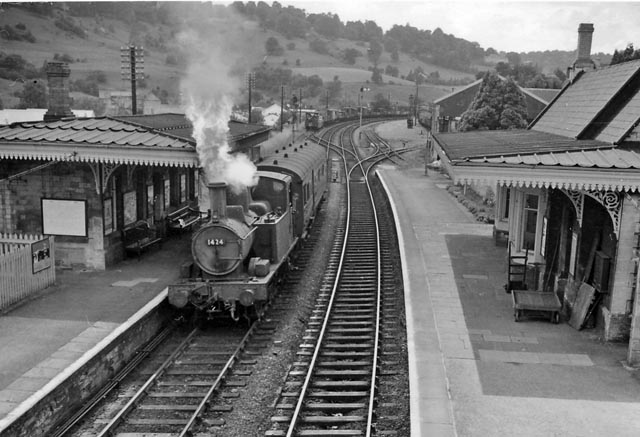 Brimscombe Station, with train. View westward, towards Gloucester; ex-GWR Swindon - Gloucester main line. The station was closed 2/11/64, when the frequent 'auto-train' service down the Stroud Valley from Chalford to Gloucester was withdrawn; the line is still going strong. One of the auto-trains is standing in the station on its way down from Chalford, being pushed by a 14XX 0-4-2T: the driver would be in the front end controlling the train, while his fireman remained on the engine.